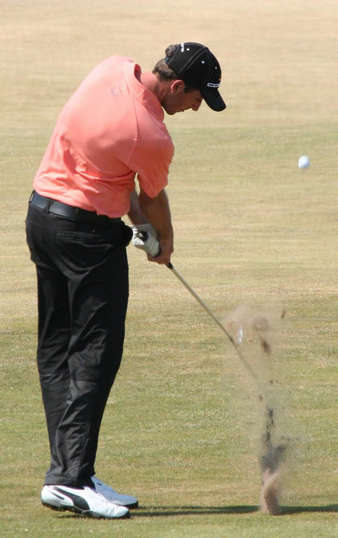 Geoff Ogilvy at the 2006 Open Championship.